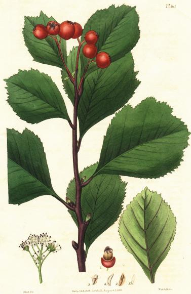 Crataegus sanguinea (Redhaw Hawthorn or Siberian hawthorn). Botanical illustration from Watson, P.W. Dendrologia_Britannica, 1825